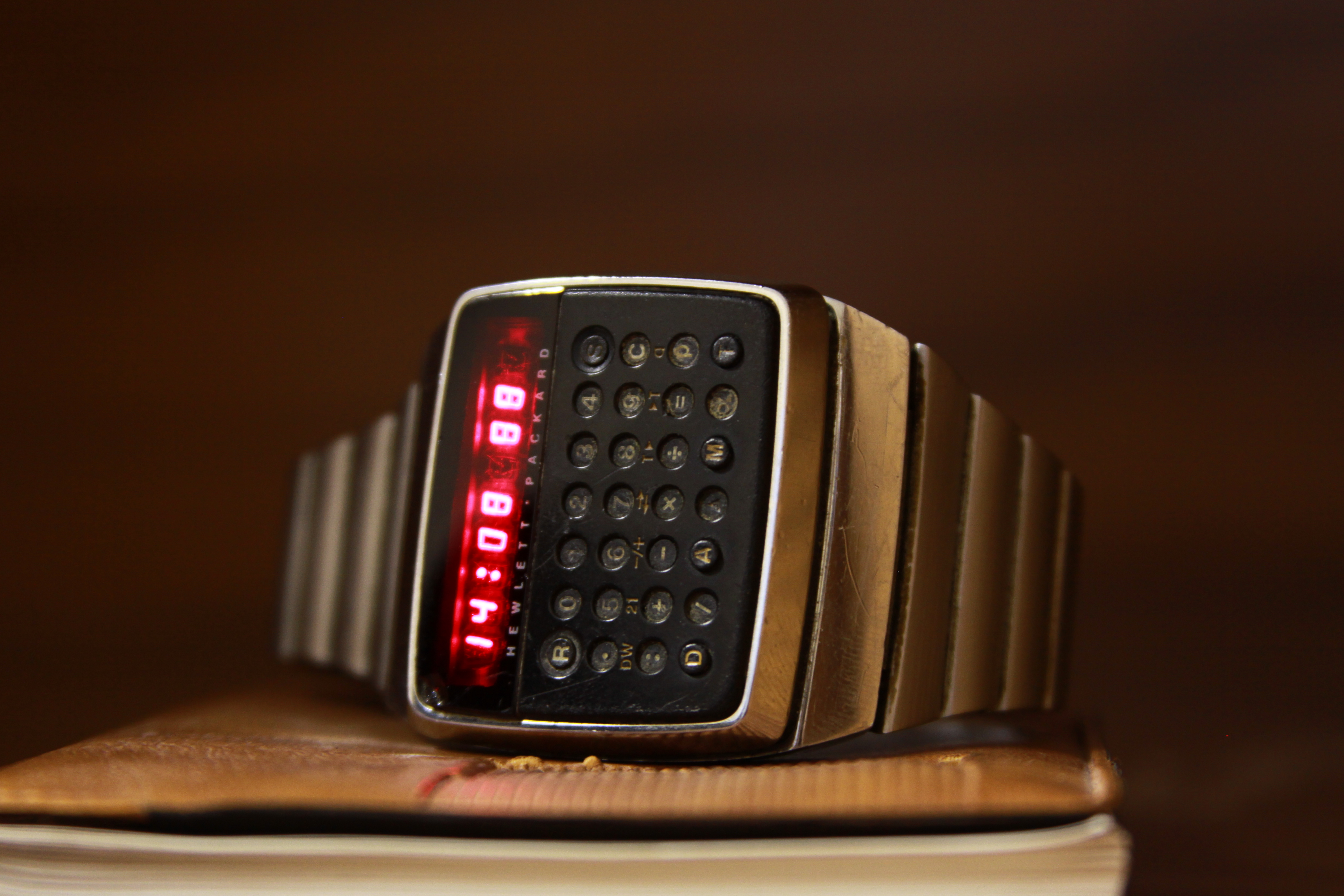 Hewlett-Packard HP-01 watch displaying the time.